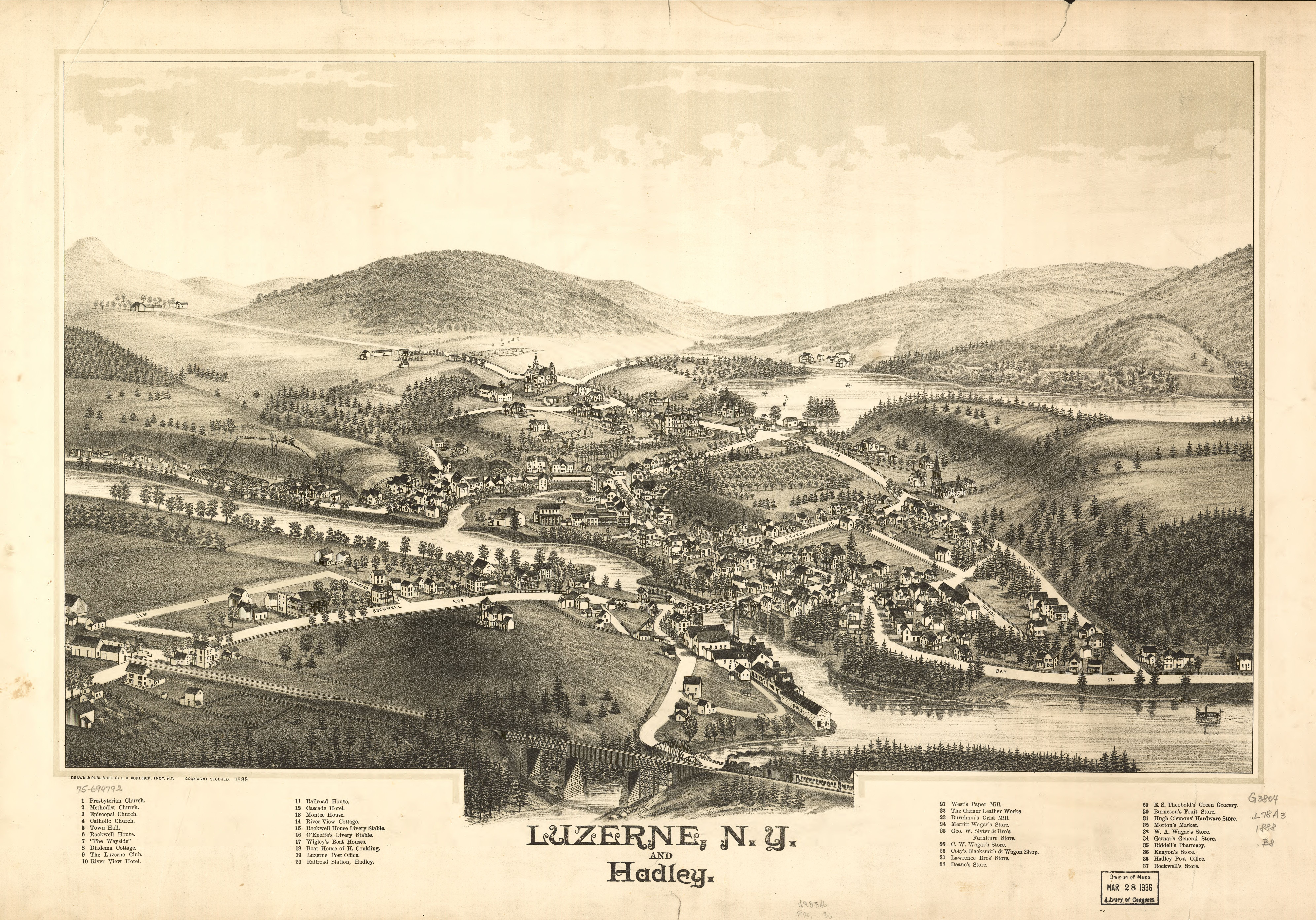 Perspective map not drawn to scale. Bird's-eye-view. LC Panoramic maps (2nd ed.), 583 Available also through the Library of Congress Web site as a raster image. Indexed for points of interest. AACR2